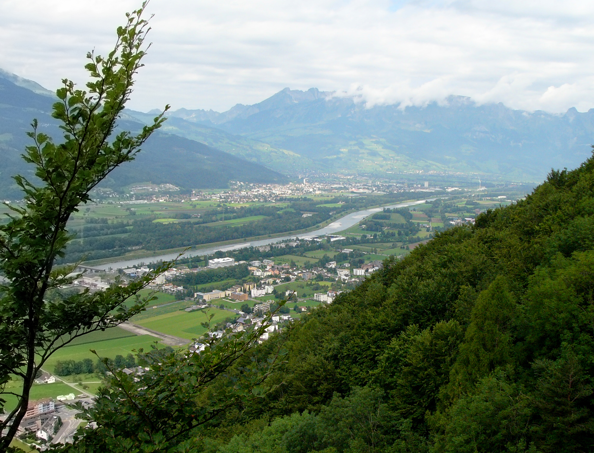 Valley of the Rhine River in Liechtenstein - View to Vaduz from the road to Malbun